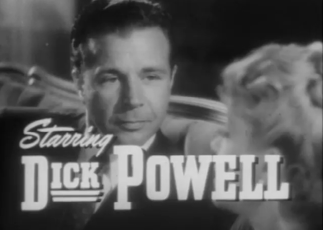 Screenshot of Dick Powell from the film Murder, My Sweet.